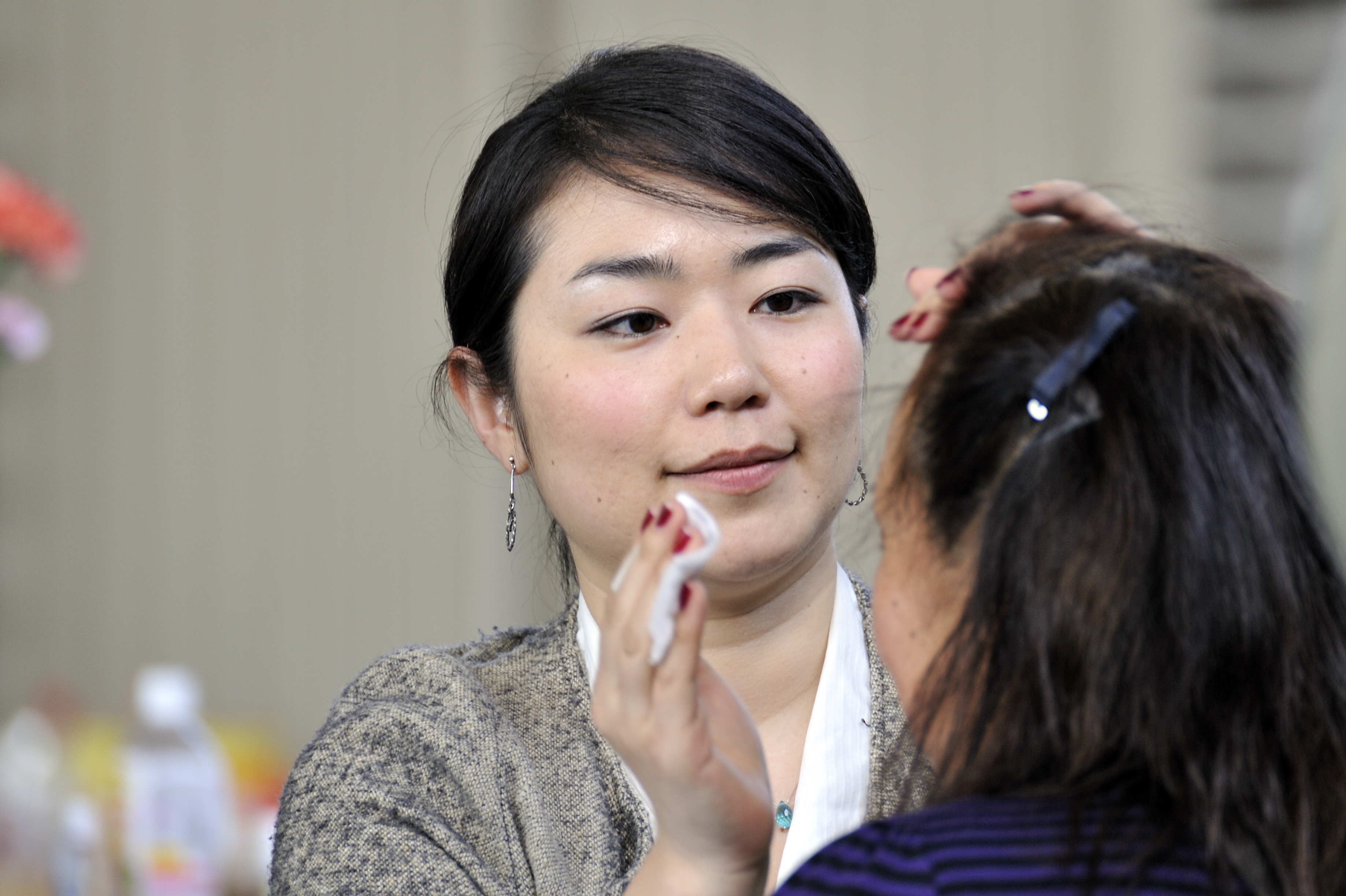 coffret project make up caravan vol.3避難所に指定されていた名取市立下増田小学校にて。